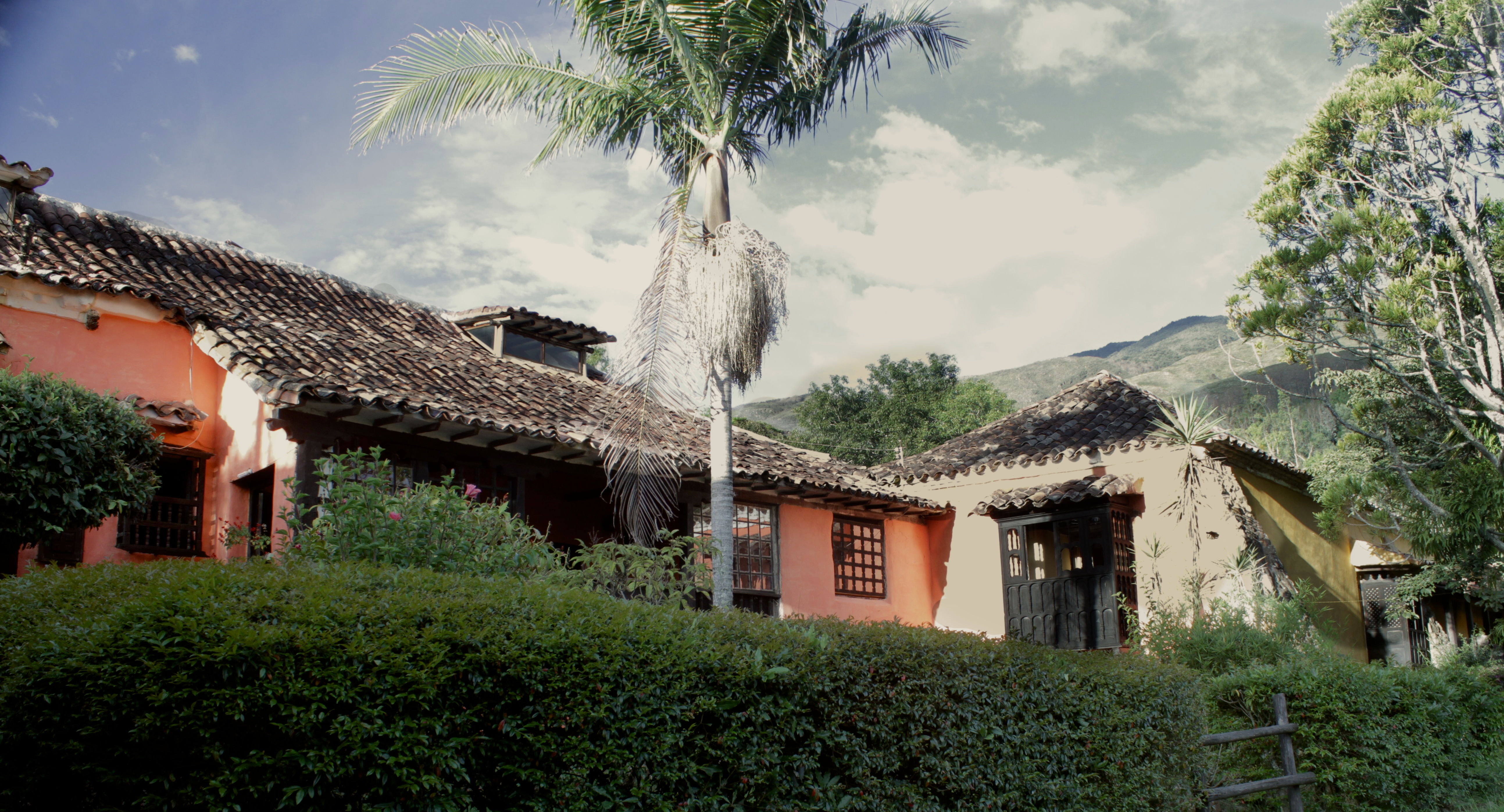 La Mesopotamia Oldest Building in town.